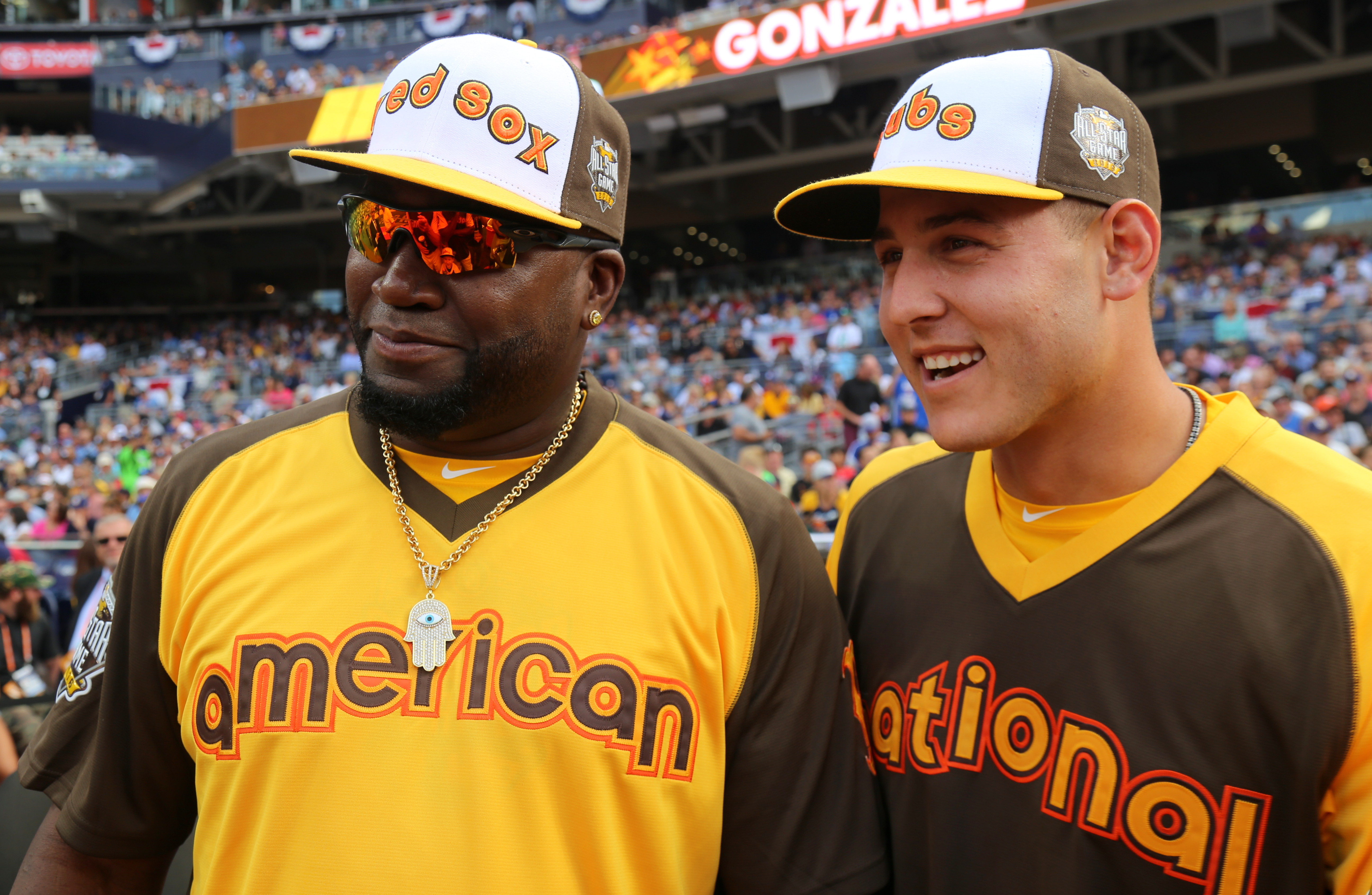 David Ortiz chats with Anthony Rizzo during the T-Mobile #HRDerby.